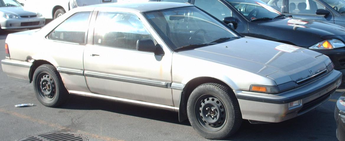 1986-1989 Honda Accord photographed in Montreal, Quebec, Canada.